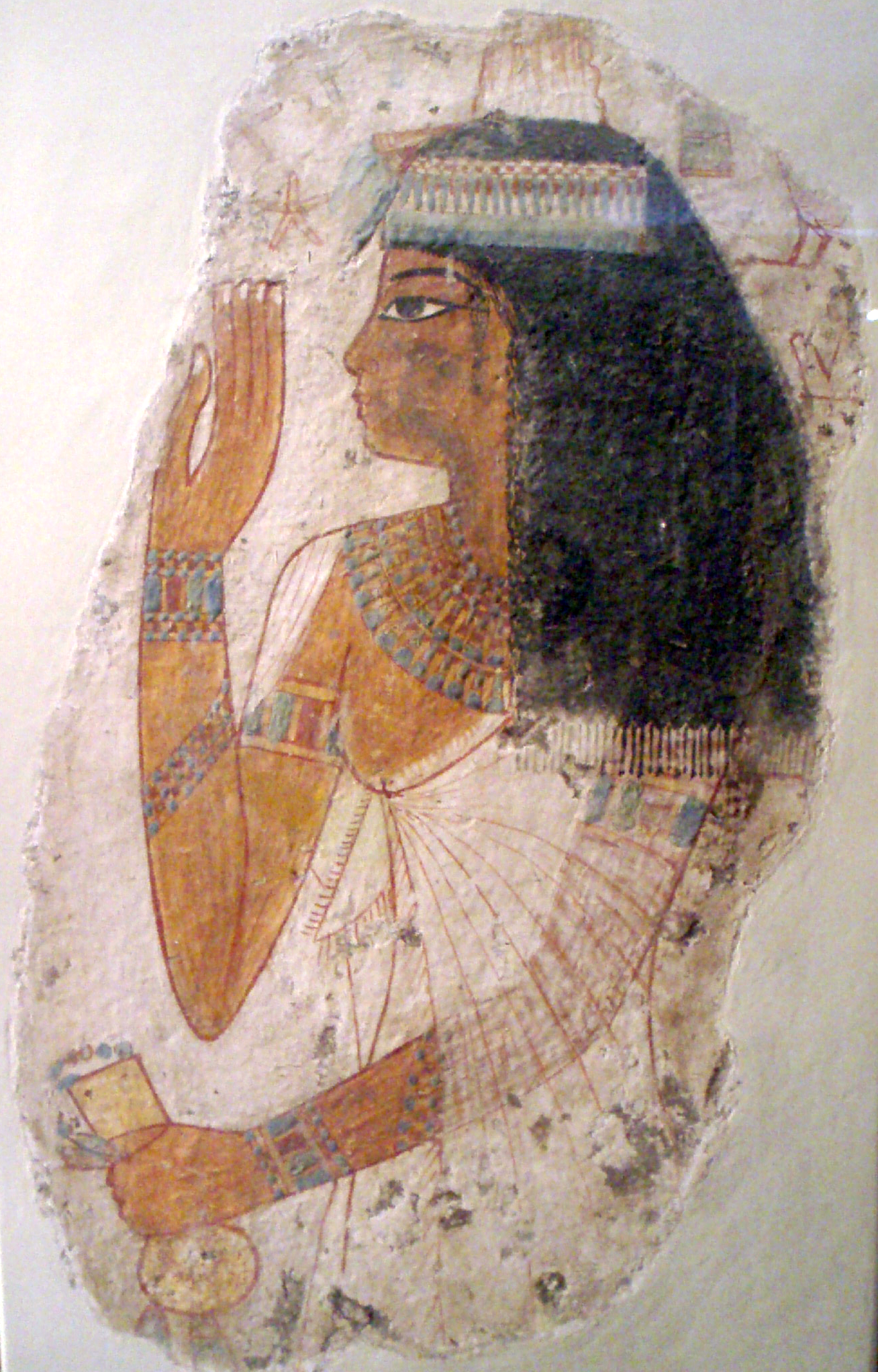 Tomb painting depicting the Lady Tjepu, from a tomb built for her son Nebamun. From the New Kingdom, 18th dynasty, reign of Amunhotep III, circa 1390-1352 B.C.